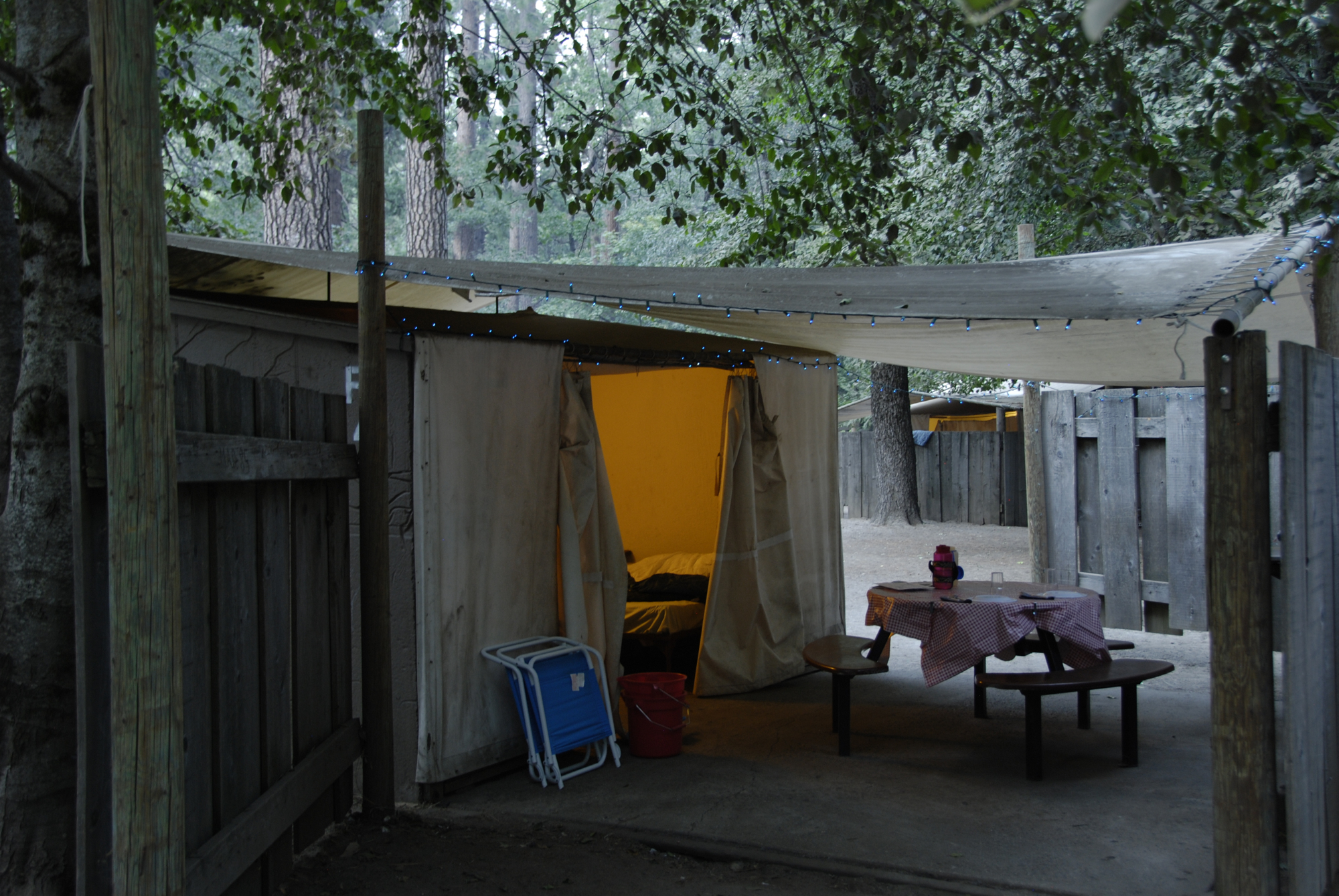 An exterior view of a lodging unit in the Housekeeping Camp at Yosemite National Park.